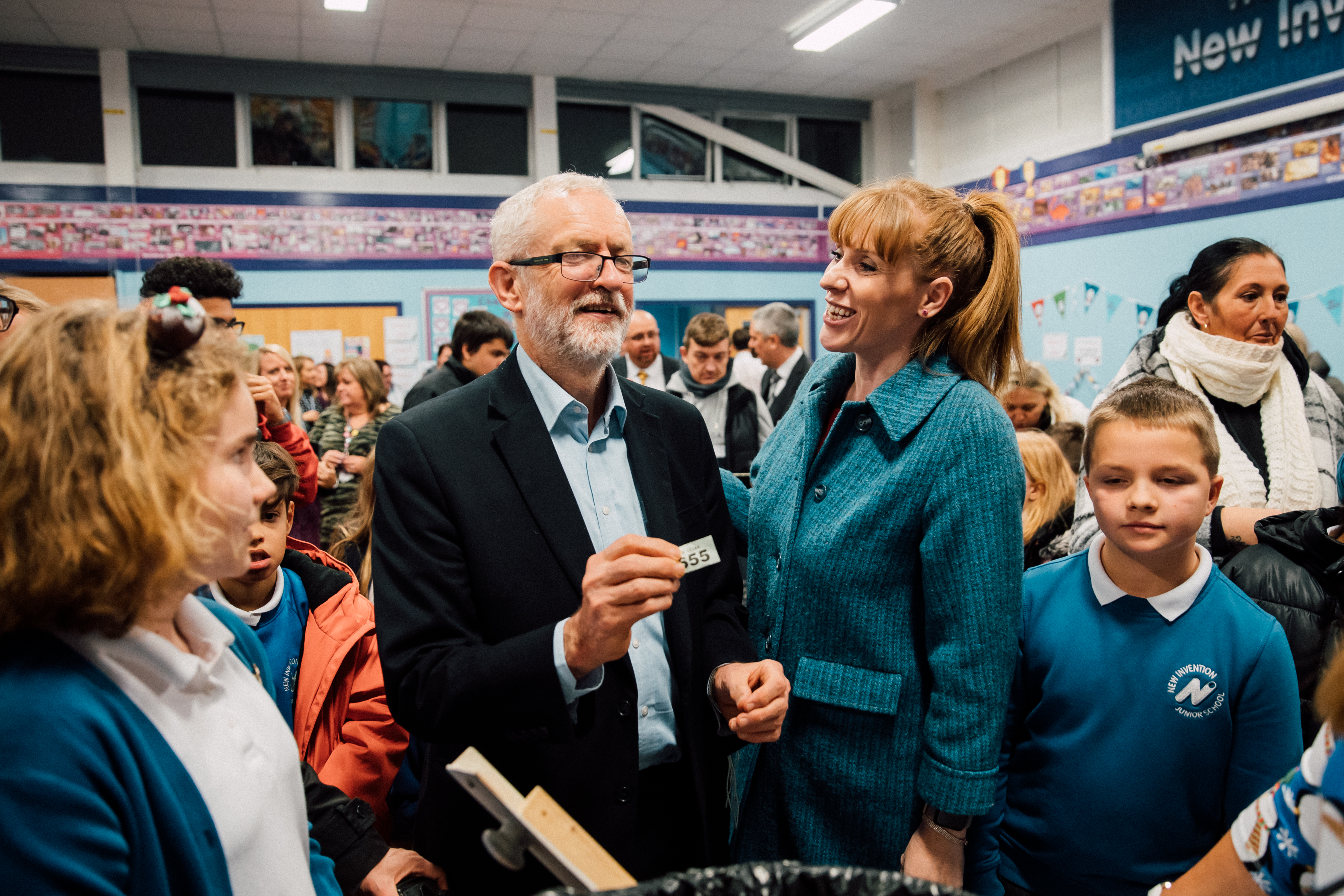 Thanks to New Invention Junior School in Willenhall for such a warm welcome. (5th December, 2019) Labour will ‘poverty-proof’ schools, introducing free school meals for all primary school children, encouraging breakfast clubs, and tackling the cost of school uniforms.